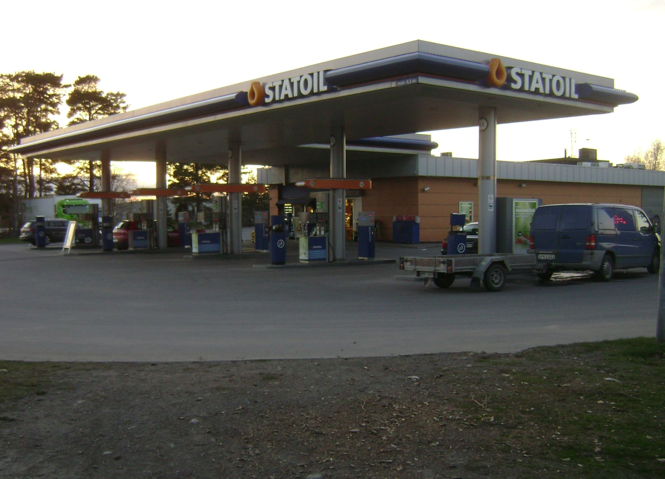 Sweden. Stockholm County. Haninge Municipality, Statoil petrol station, (Vendelsövägen 59)